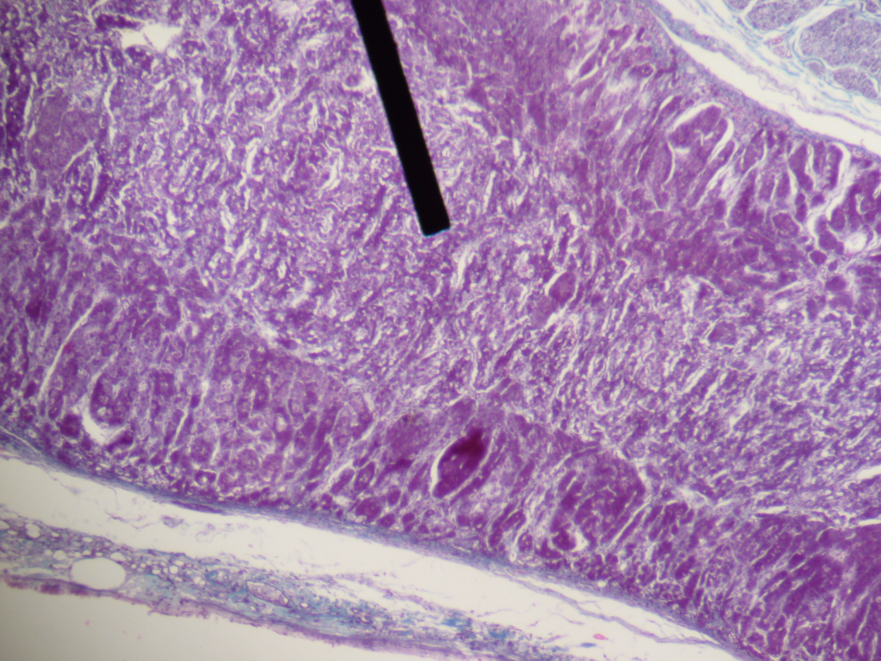 Author's own picture. Digital camera shot though a microscope; human adrena gland.